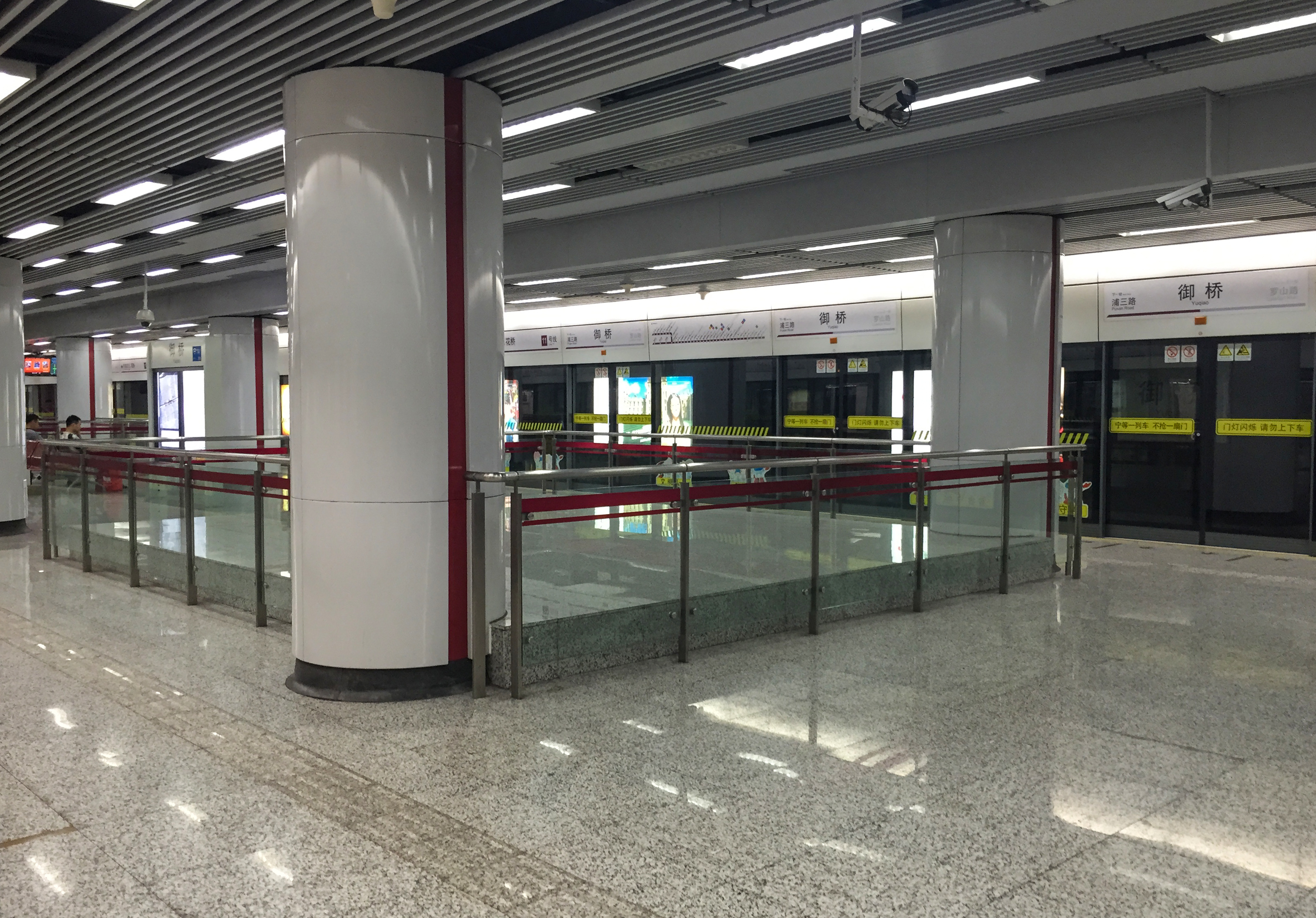 A stage? Of course not - reserved interchange for Line 18. At least the reserve at Shilihe isn't like a stage at all. Imagine when there are shows on the platform...